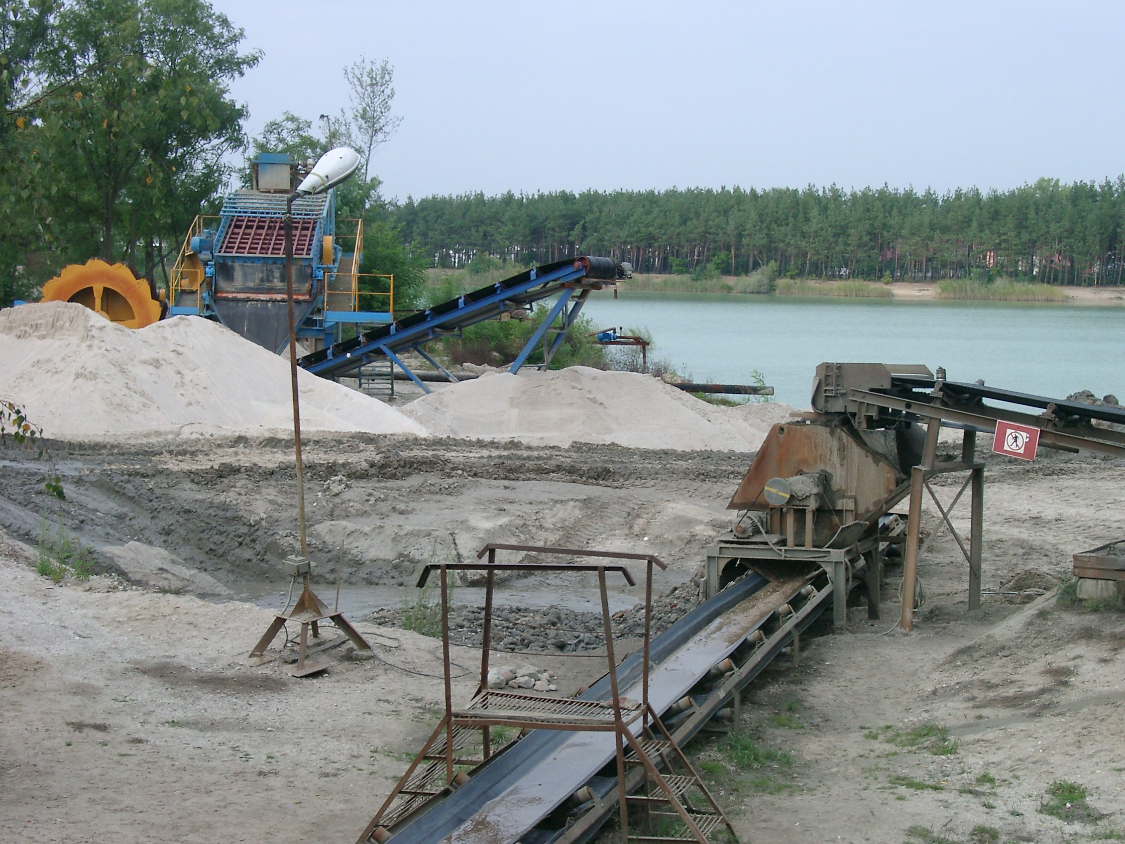 Gravel pit in Rokitki near Chojnów